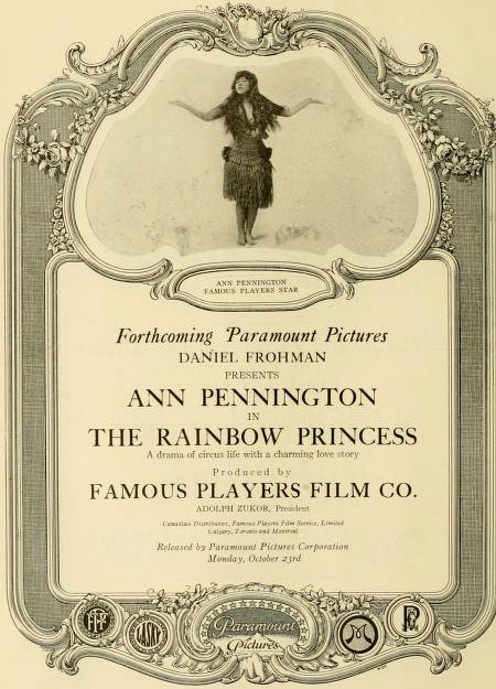 Advertisement in Moving Picture World